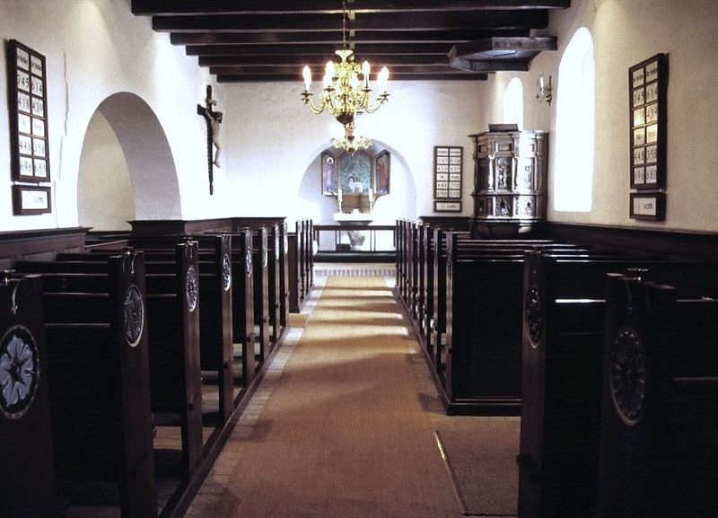 Albæk Church in Frederikshavn Kommune from apr. 1100